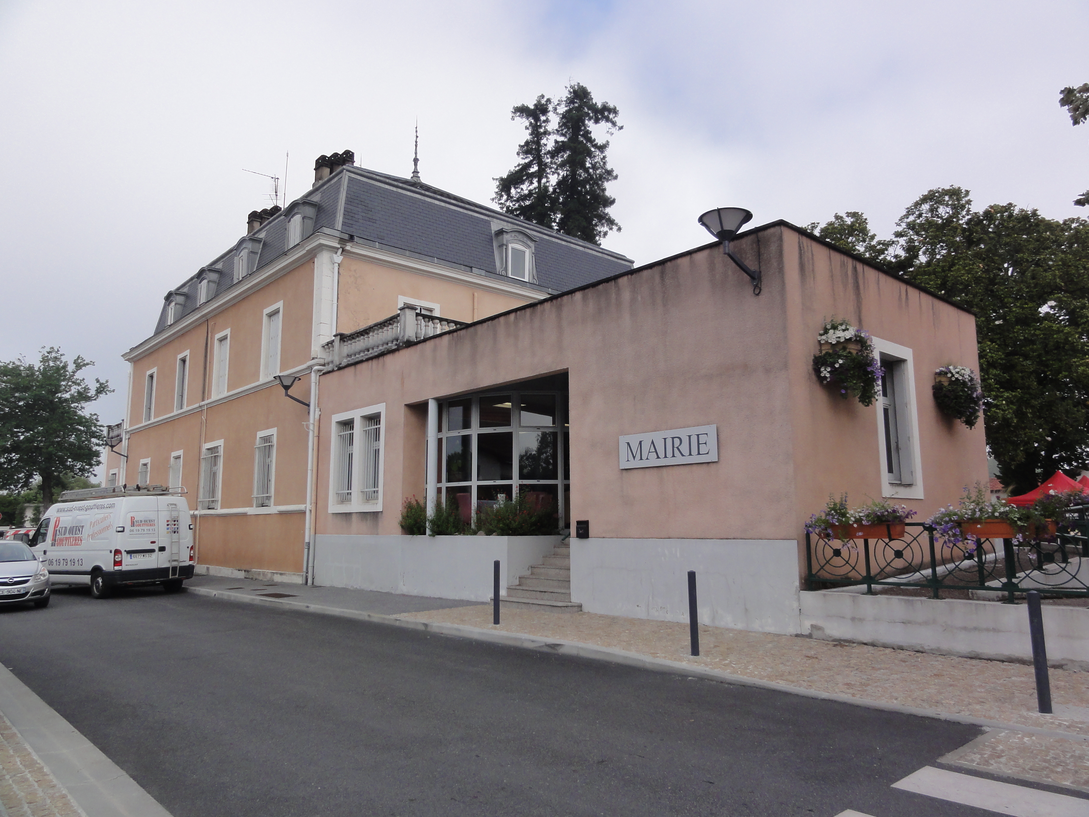 Castets (Landes) mairie